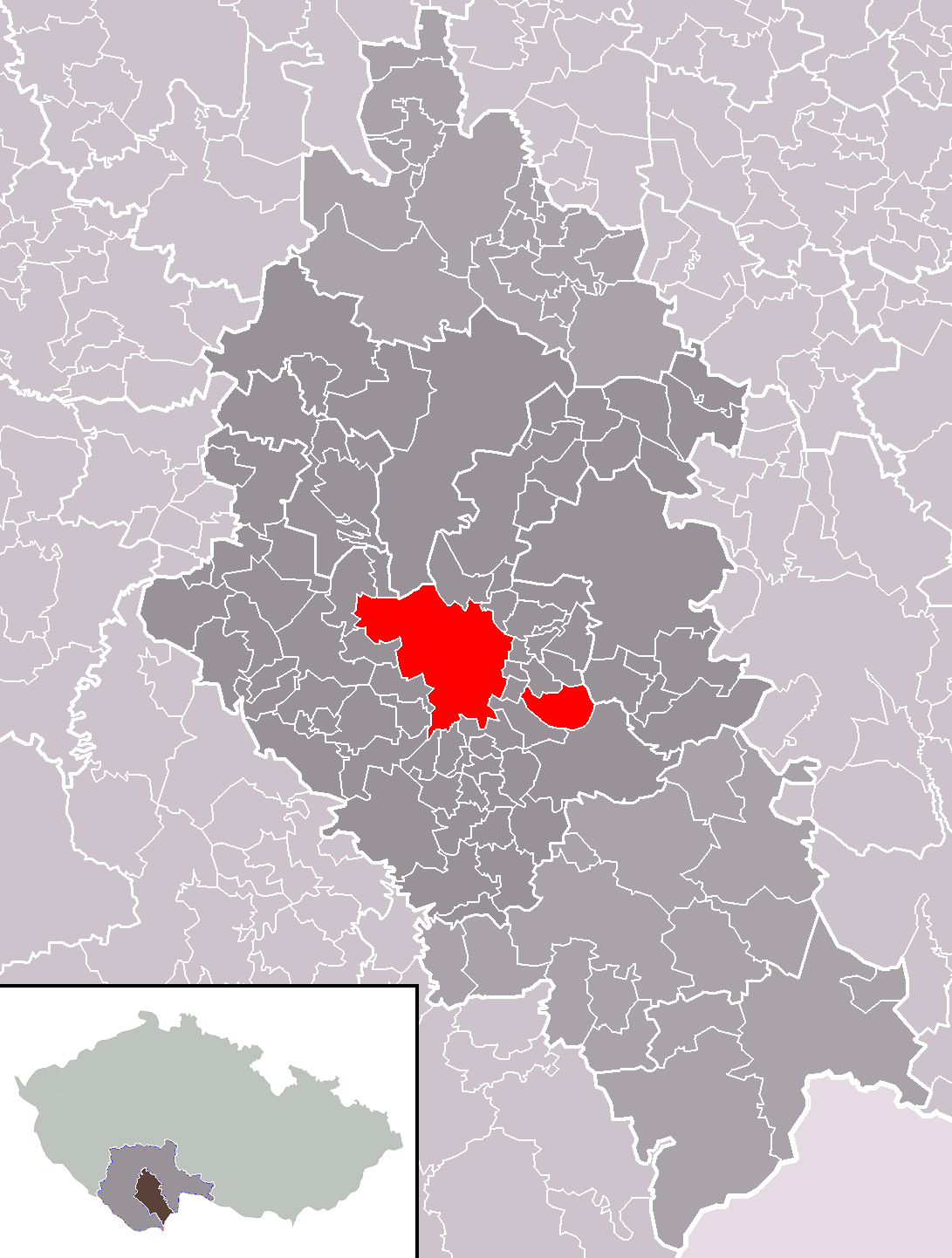 Location of České Budějovice city within České Budějovice District and administrative area of České Budějovice as a Municipality with Extended Competence.